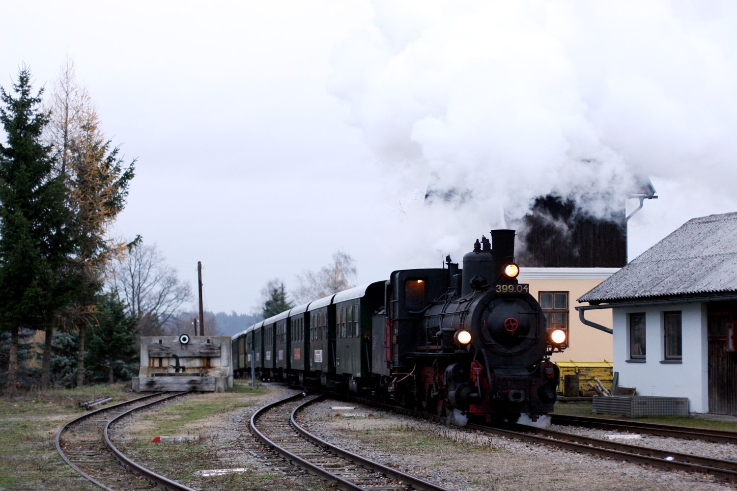 Train on the Waldviertel narrow gauge railways with class 399 engine entering Weitra station on the Gmünd - Groß Gerungs line